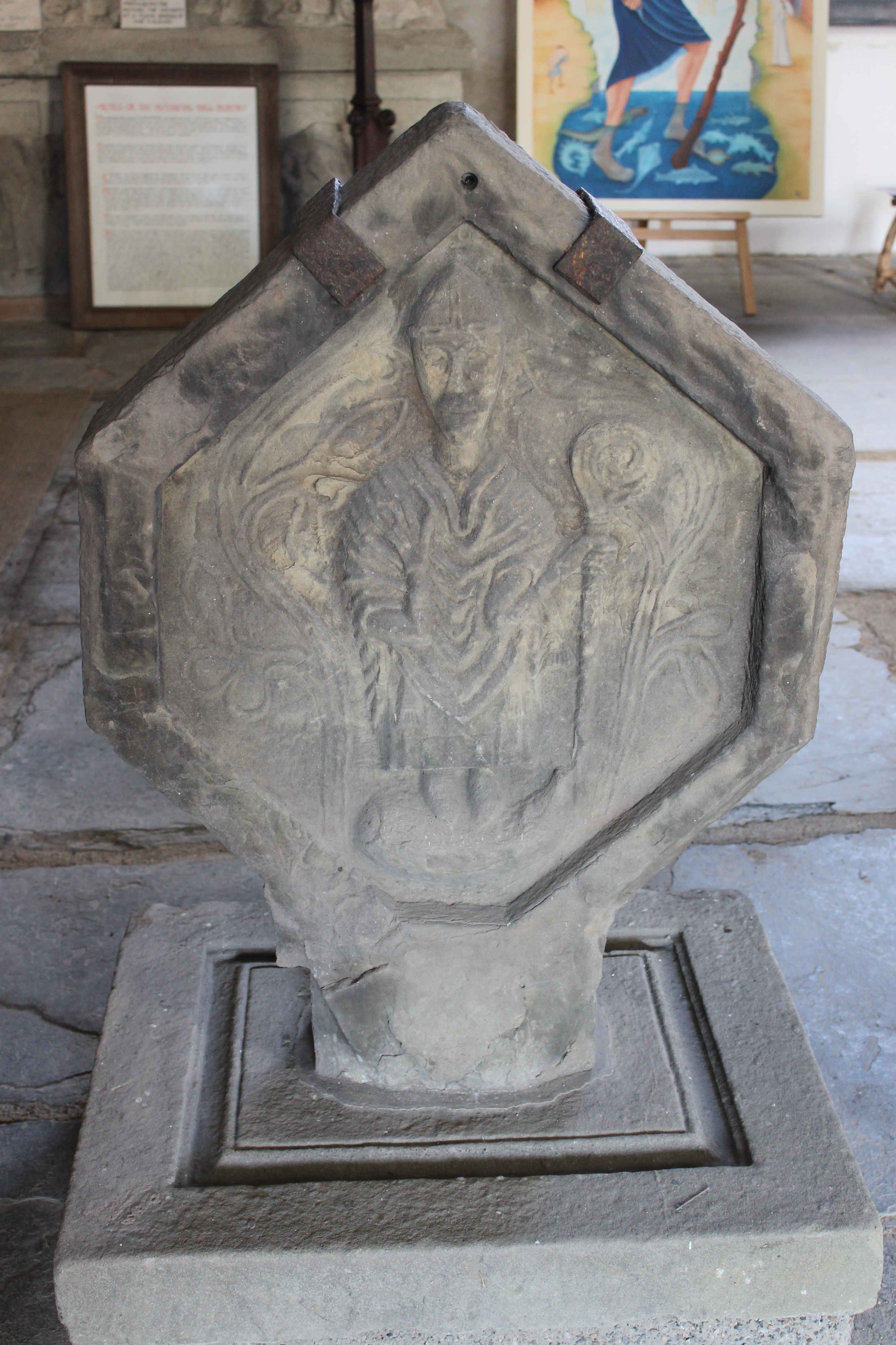 St. Saeran's church, Llanynys, Denbighshire, North Wales is a Grade 1 listed building. In 2015 a £4.5 million project came to an end, preserving this church.